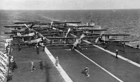 A squadron of Fairey Seal aircraft preparing for takeoff from the Royal Navy aircraft carrier HMS Glorious (77).